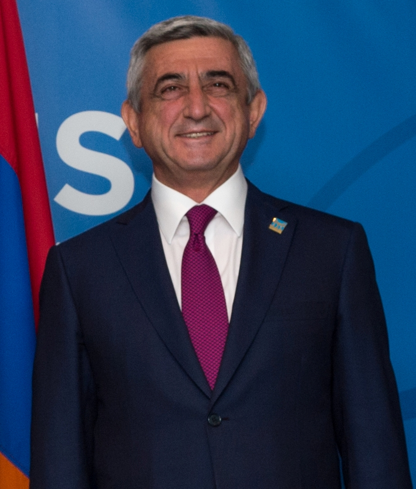 U.S. Secretary of State John Kerry is flanked by Azerbaijani President Ilham Aliyev, left, and Armenian President Serzh Sargysan, right, before a trilateral meeting amid the NATO Summit in Newport, Wales, United Kingdom on September 4, 2014. [State Department photo/ Public Domain]